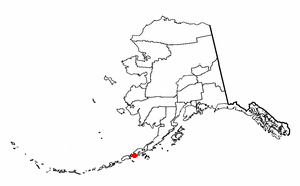 Adapted from Wikipedia's AK borough maps by Seth Ilys.